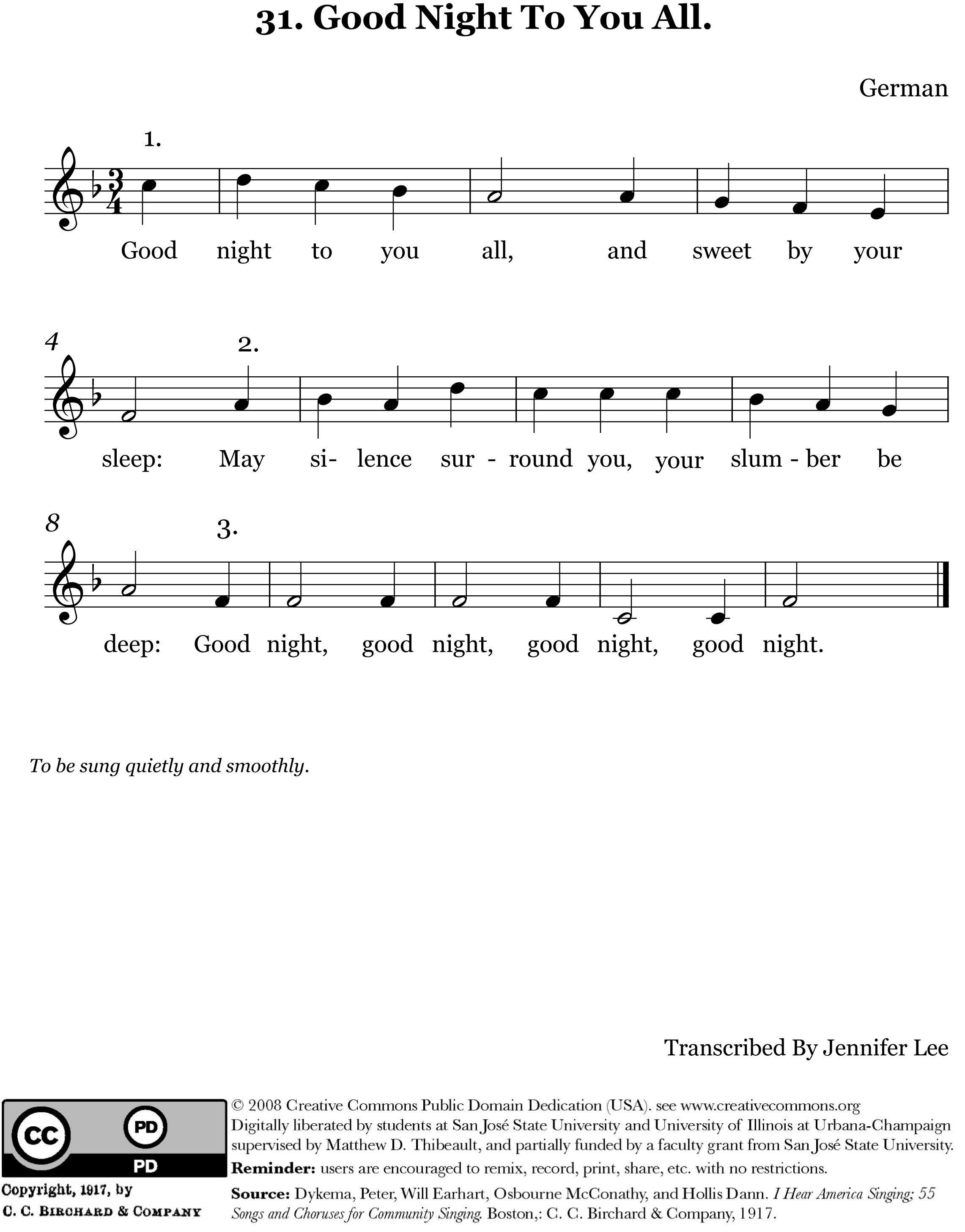 Goodnight to You All